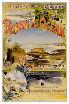 Poster of the Administration des chemins de fer de l'État (France); Royan Océan, France.